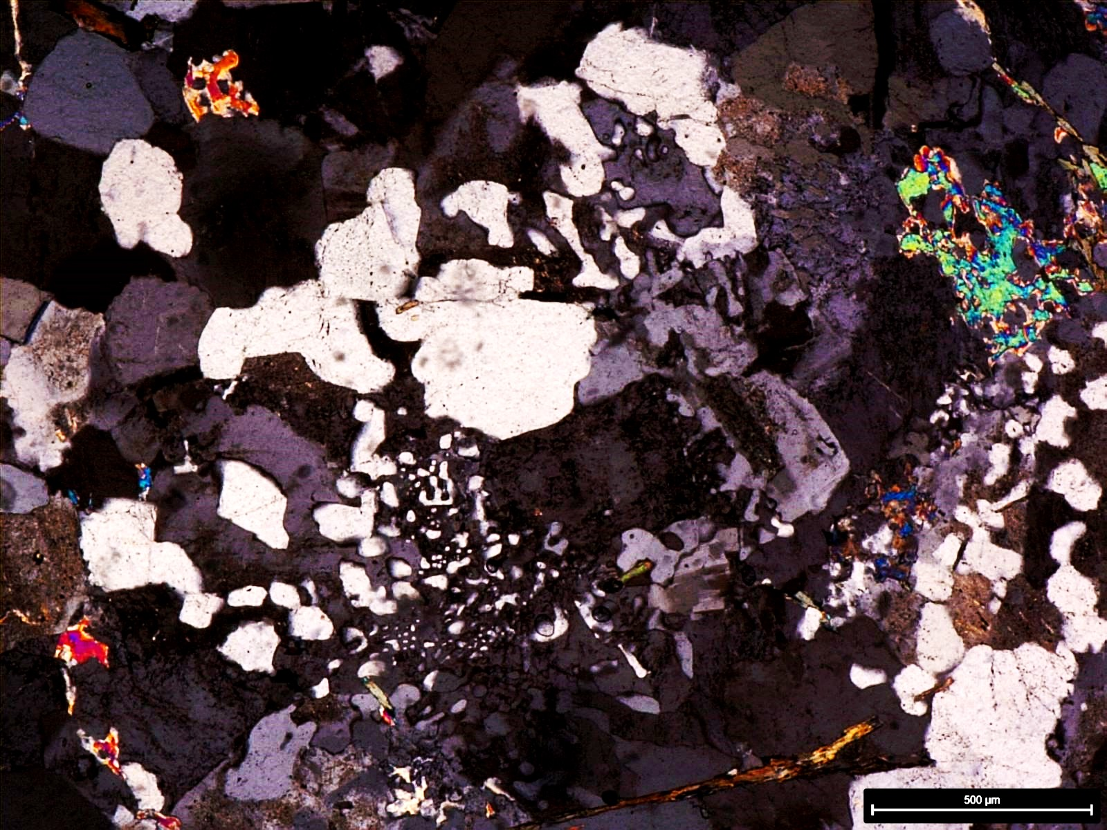 Granophyric quartz in the S-type Strathbogie Granite, Australia